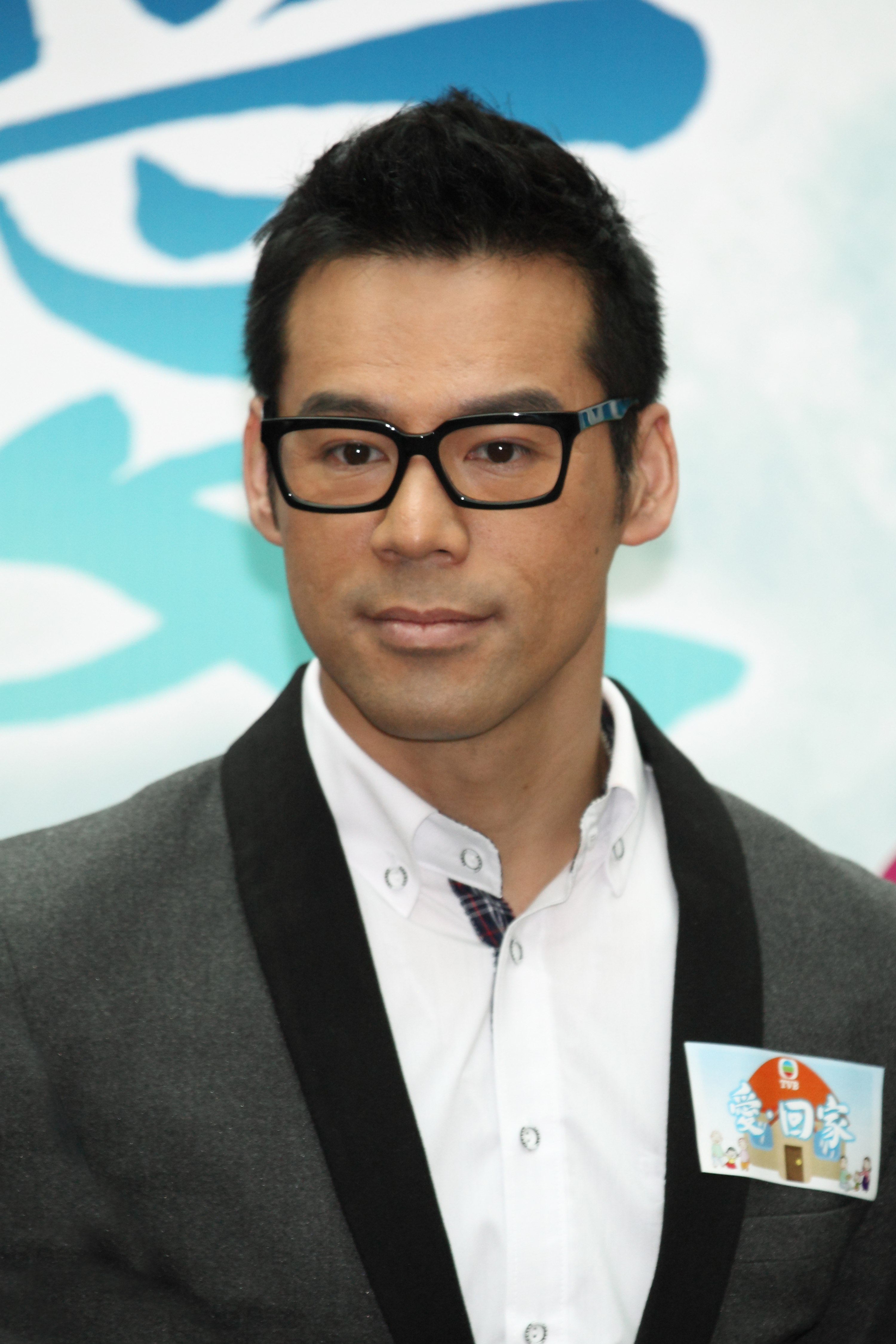 Tsui Wing at the premiere of Come Home Love